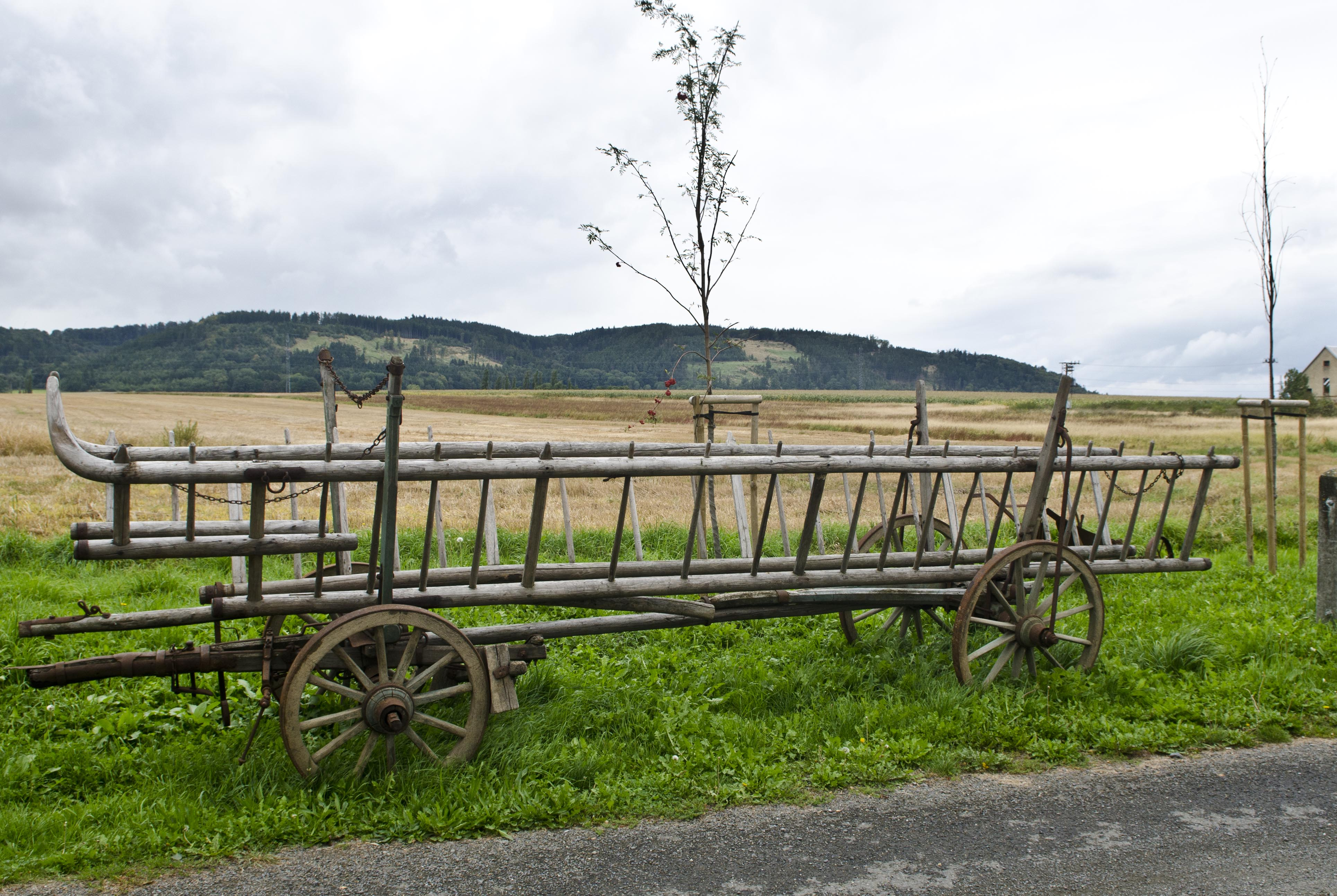 Farmland across from Mendel's birthplace.